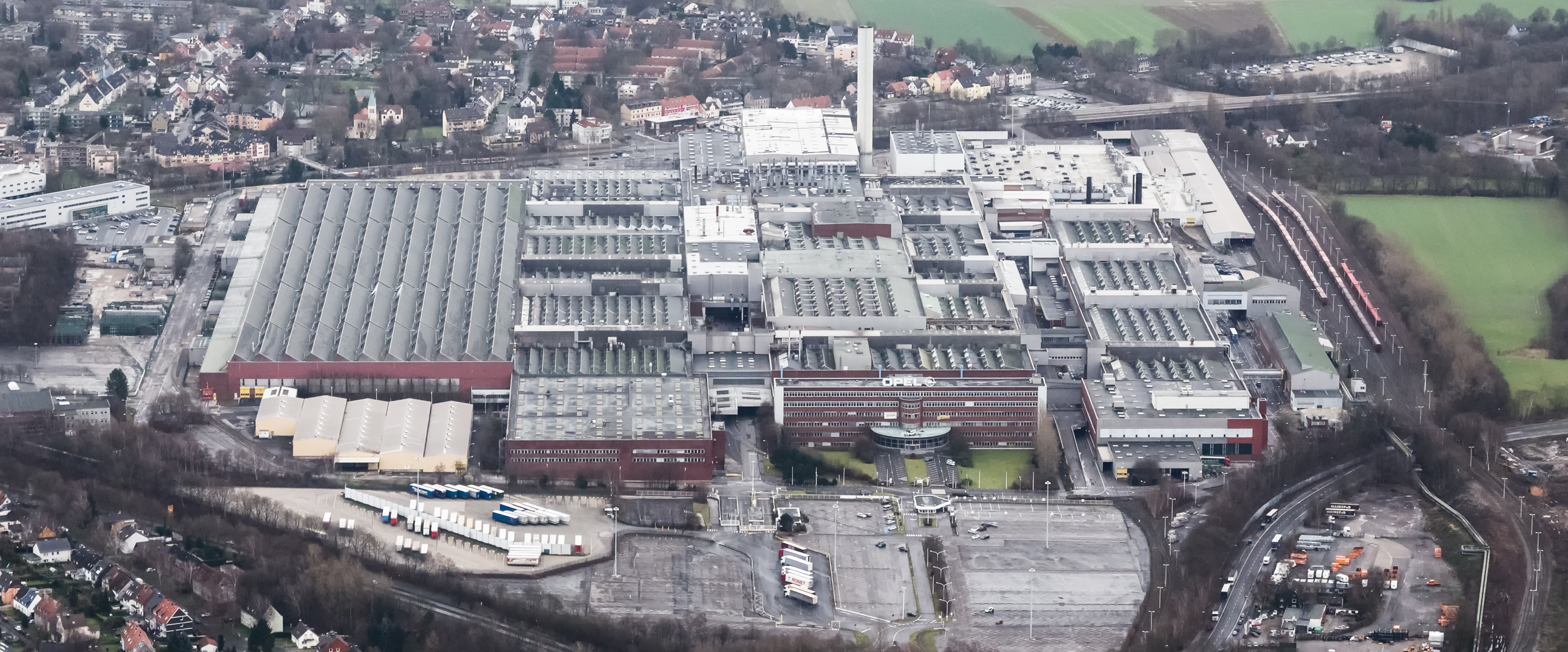 Aerial shot of production location of Adam Opel AG, site I in Bochum